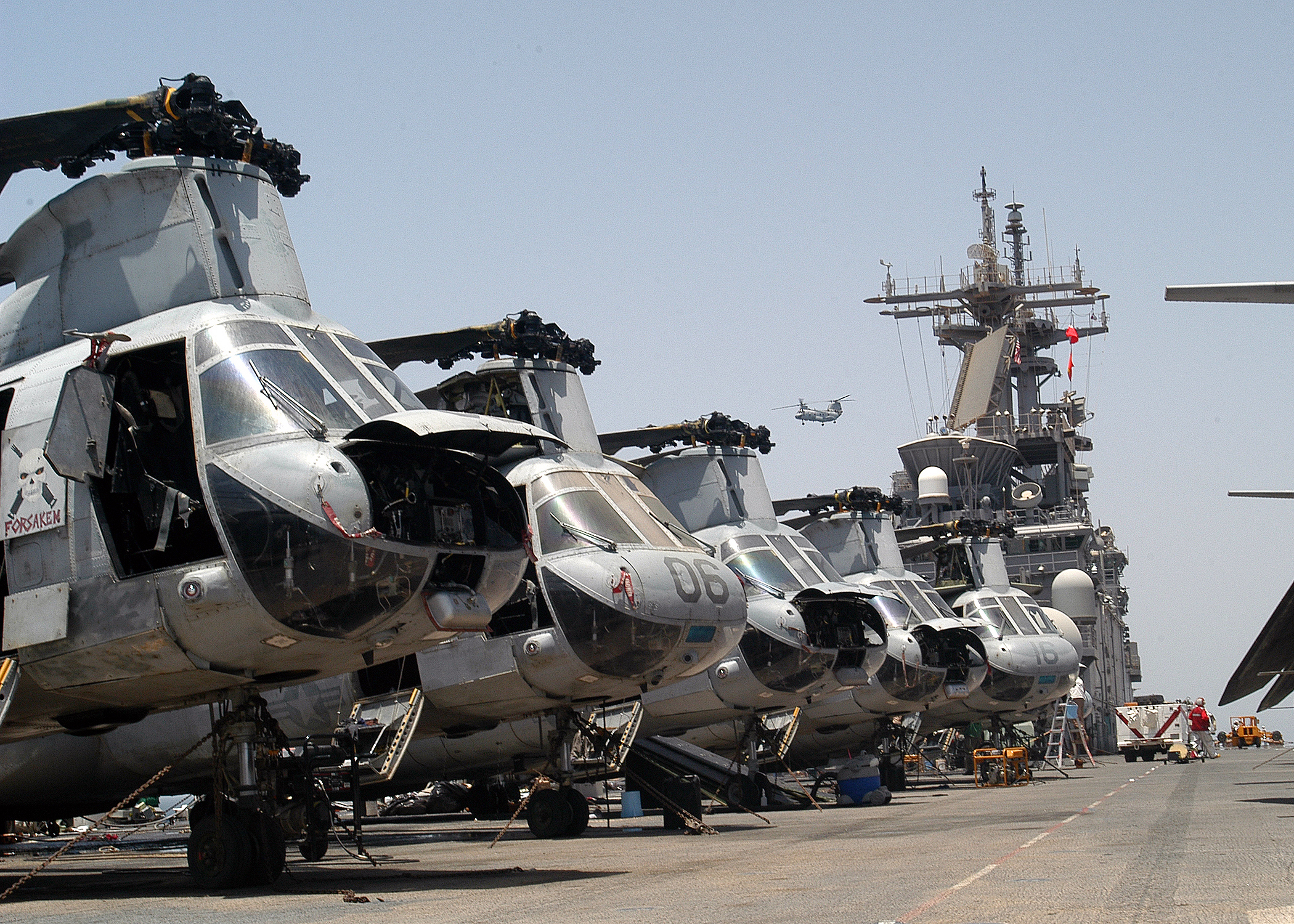 The Red Sea (May 22, 2003) -- CH-46 Sea Knight helicopters assigned to the “Blue Knights” of Marine Medium Squadron Three Sixty Five (HMM-365) stand in line aboard the amphibious warfare ship USS Kearsarge (LHD-3), in preparation for inspection. The Kearsarge was operating in the Red Sea.